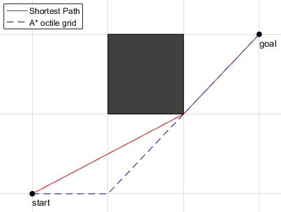 Shows the path found by A* on an octile grid and the shortest path from the start point to the end point. Made in MATLAB.